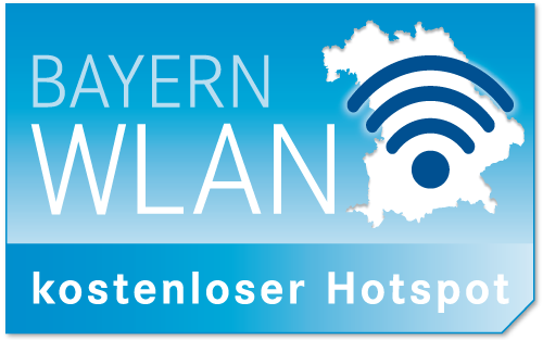 BayernWLAN Logo